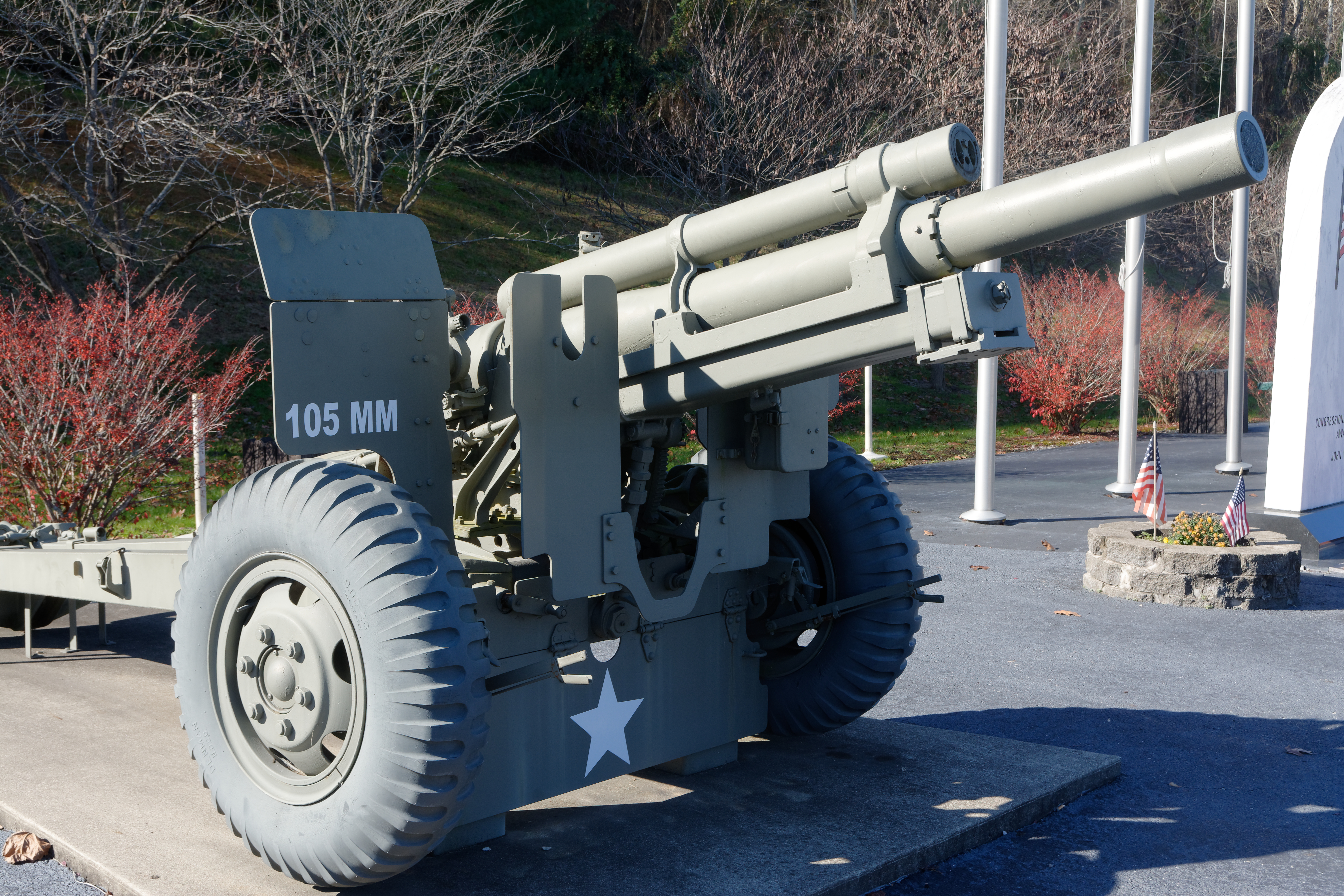 M101 105mm howitzer in Greenup, Kentucky, U.S.